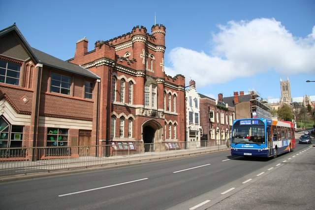 Broadgate Looking uphill along Broadgate with the Drill Hall taking centre stage